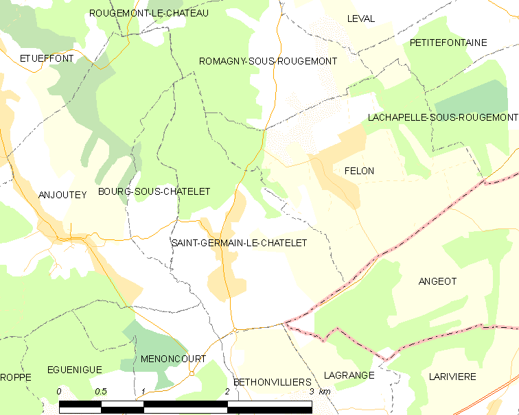 Map of French municipality Saint-Germain-le-Châtelet